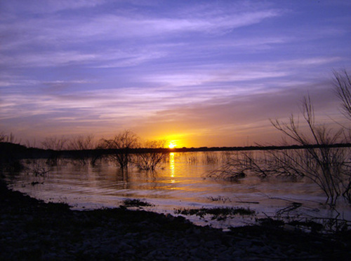 From the Amistad National Recreation Area's official twitter feed, showing Lake Amistad or the Amistad Reservoir at sunset.